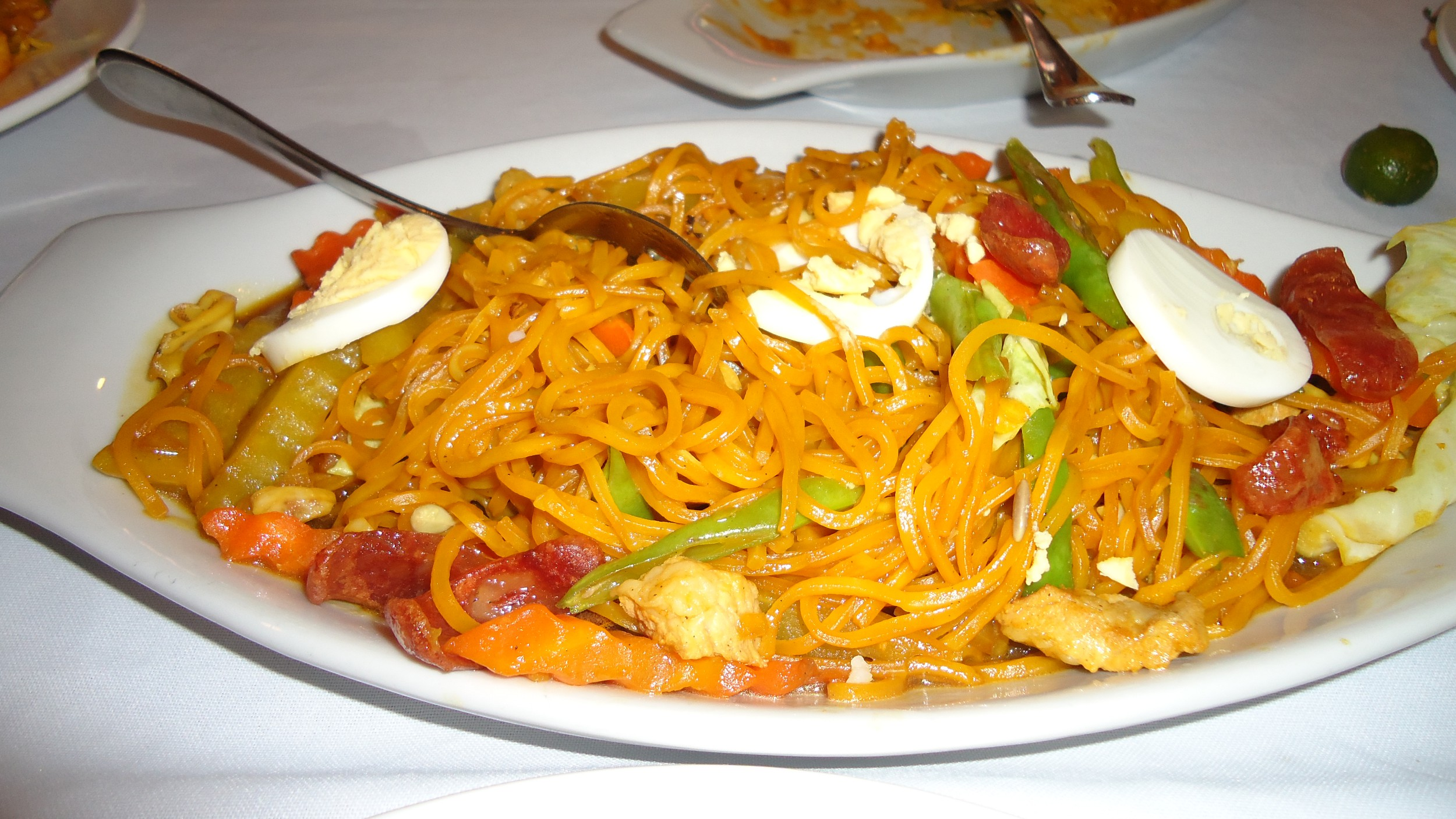 Filipino Pancit (noodles) topped with hardboiled eggs, shrimp, and chorizo.